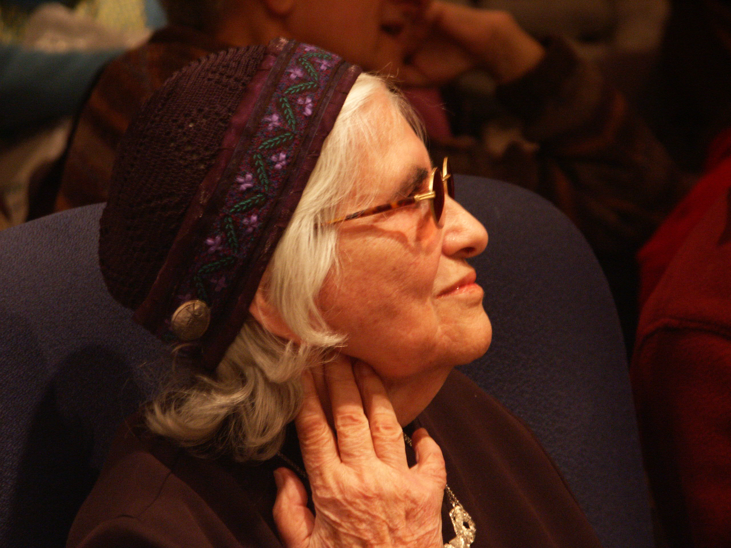 Naomi Frenkel